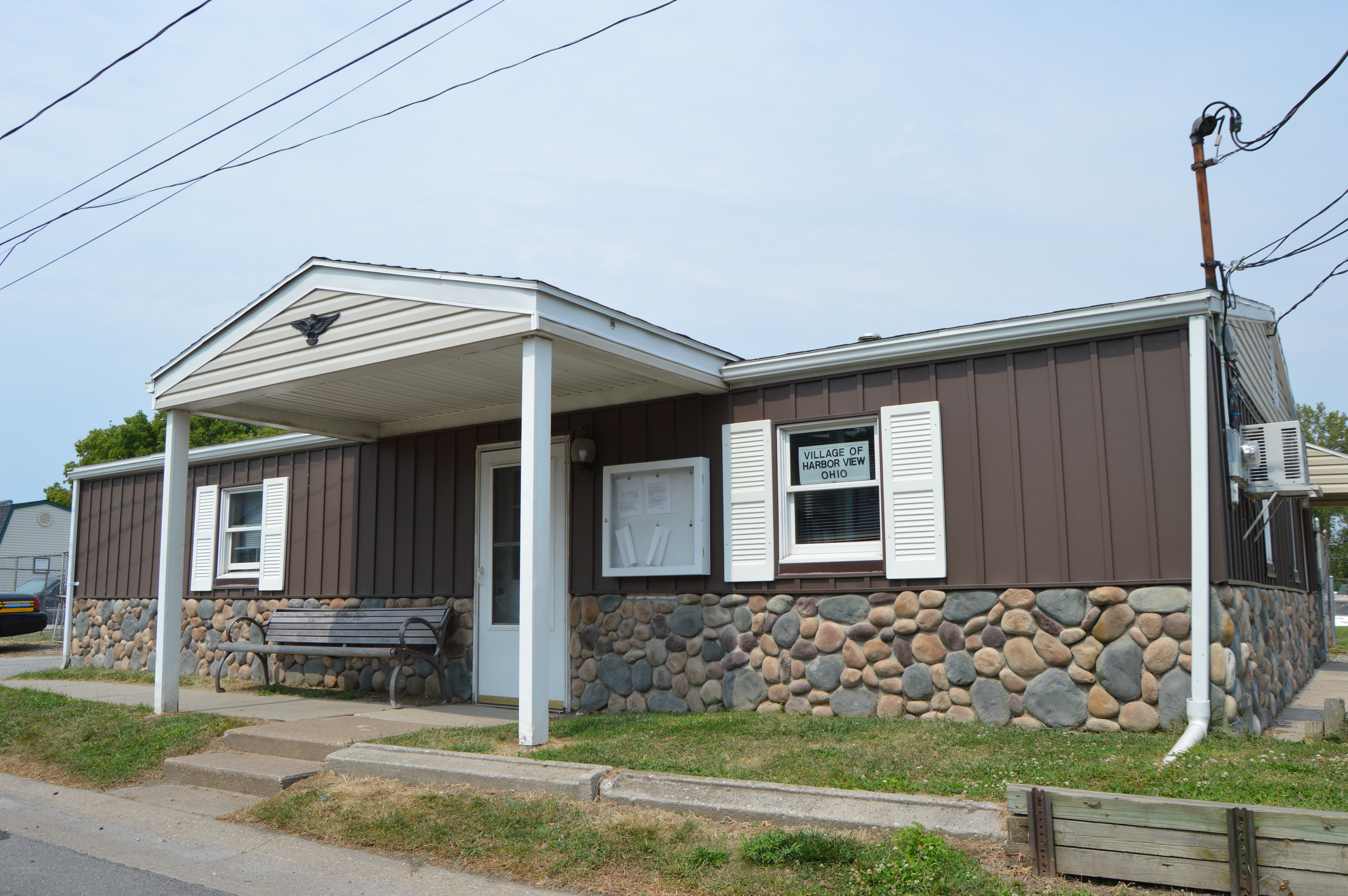 Front of the municipal building in Harbor View, Ohio, United States, located at 327 Lakeview Avenue. Despite the appearance, this is a concrete-block building with a newly applied stone-and-steel facade.